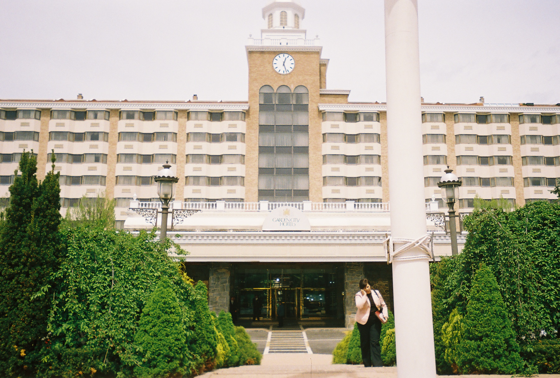 View of the Garden City Hotel from 7th Street in Garden City, New York.